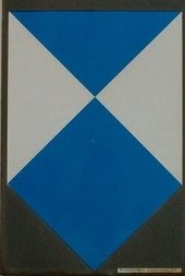 Blaues Schild, "Haager Abkommen für den Schutz von Kulturgut bei bewaffneten Konflikten" (Den Haag, 1954); Blue Shield, "Convention for the Protection of Cultural Property in the Event of Armed Conflict" (The Hague, 1954); Bouclier bleu, "Convention pour la protection du patrimoine culturel en cas de conflit armé" (La Haye, 1954)